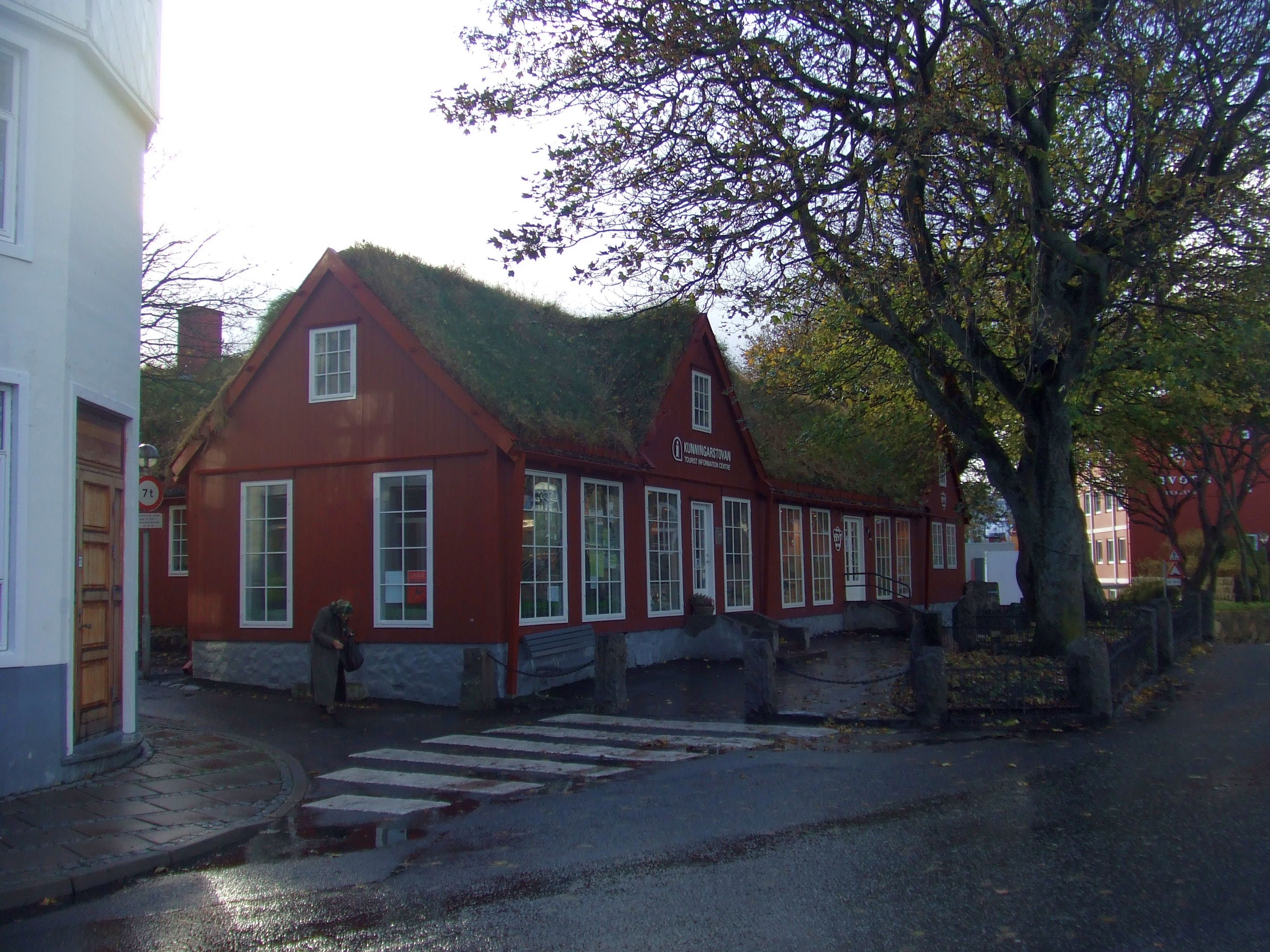 H.N. Jacobsens Bókahandil (Jacobsen's Book Store) in Tórshavn, founded 1865. Føroyskt: H.N. Jacobsens Bókahandil í Tórshavn, grundað 1865. Norsk (bokmål): H.N. Jacobsens Bókahandil i Tórshavn, grunnlagt 1865.